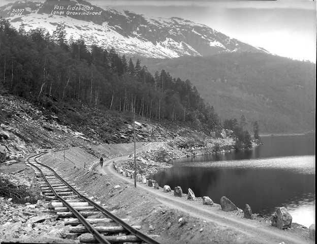 Construction of the Hardanger Line in 1927, along the lake Granvinvand in Granvin, Norway